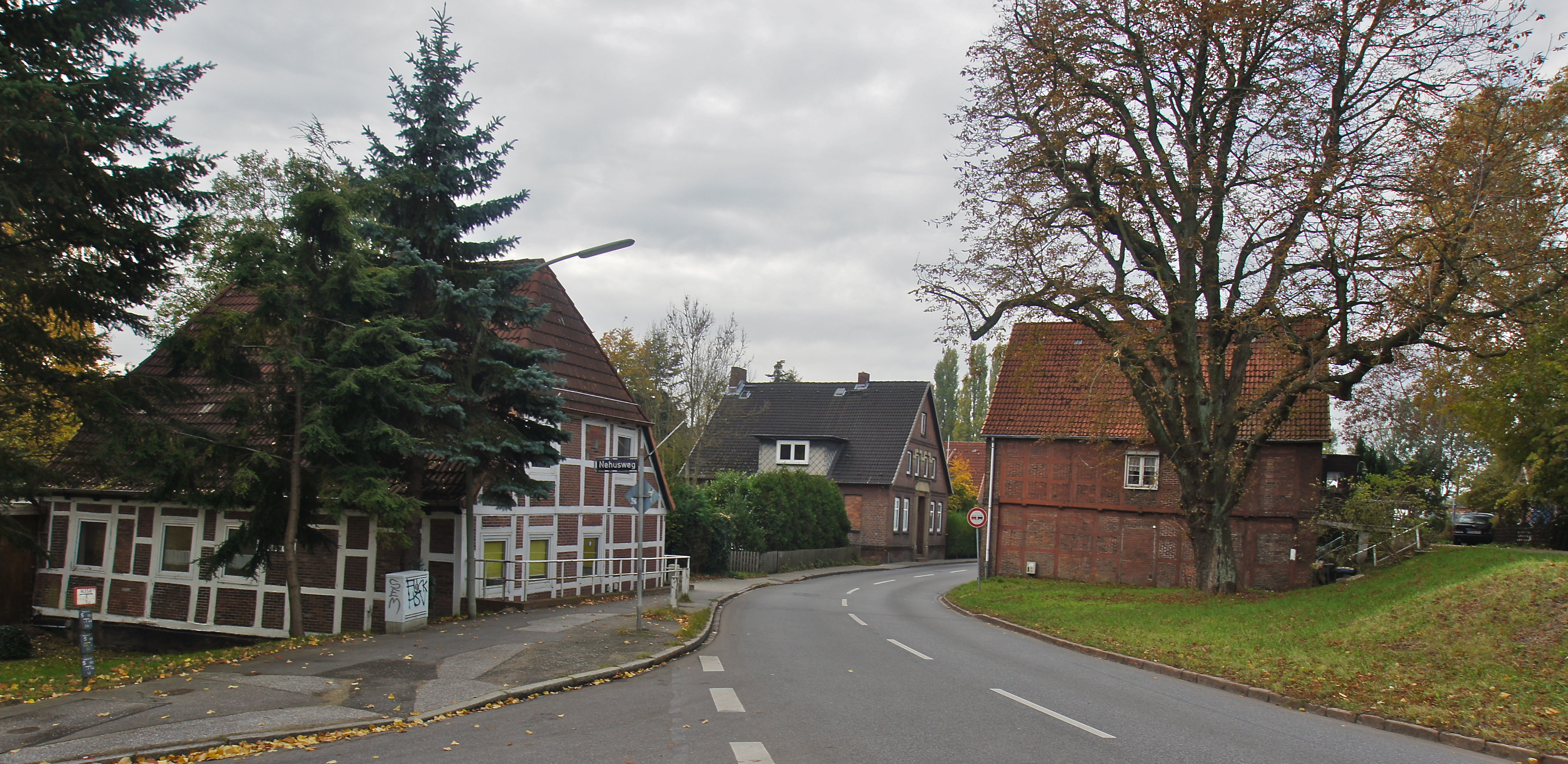 Hamburg (Moorburg), Germany: Timber framed houses at the Elbdeich